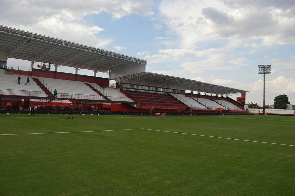 Estadio